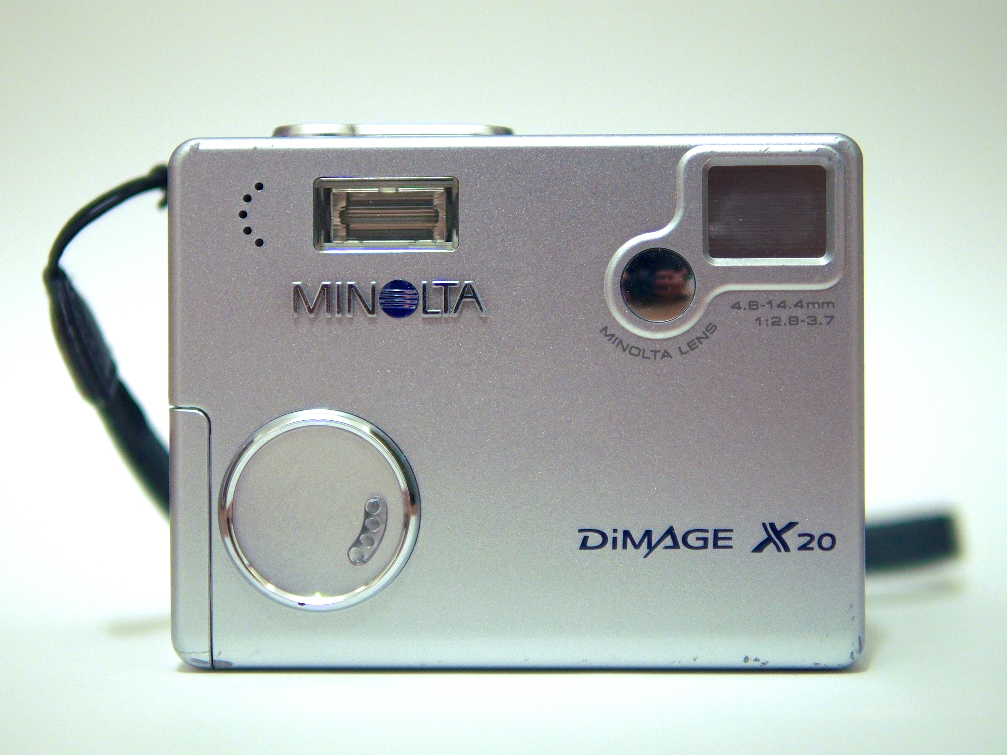 Minolta Dimage X20, 2003